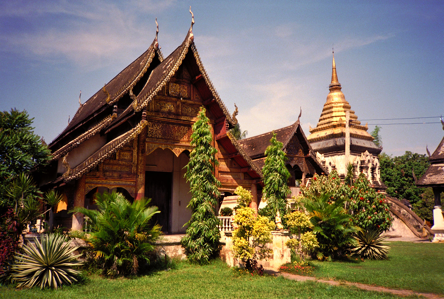 Wat Chiang Man and garden, Chiang Mai, northern Thailand